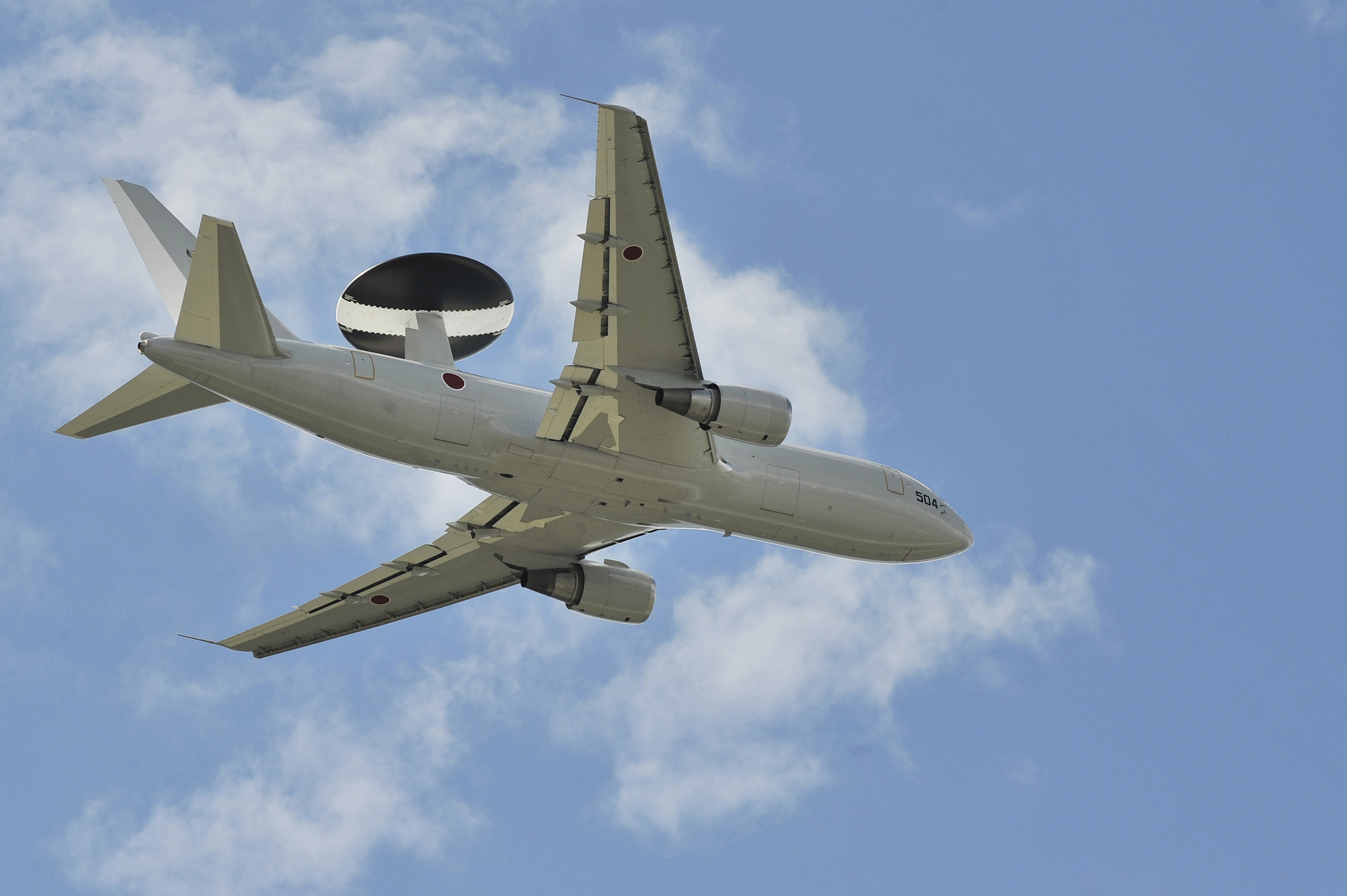 JASDF E-767 AWACS. A Japan Air Self Defense Force E-3 Sentry Airborne Warning and Control System aircraft soars over Eielson Air Force Base, Alaska, July 6, 2011. The JASDF is participating in RED FLAG-Alaska 11-2, a two week long exercise providing aircrew realistic combat sorties, increasing their chances of survival in combat. (U.S. Air Force photo/Staff Sgt. Christopher Boitz)